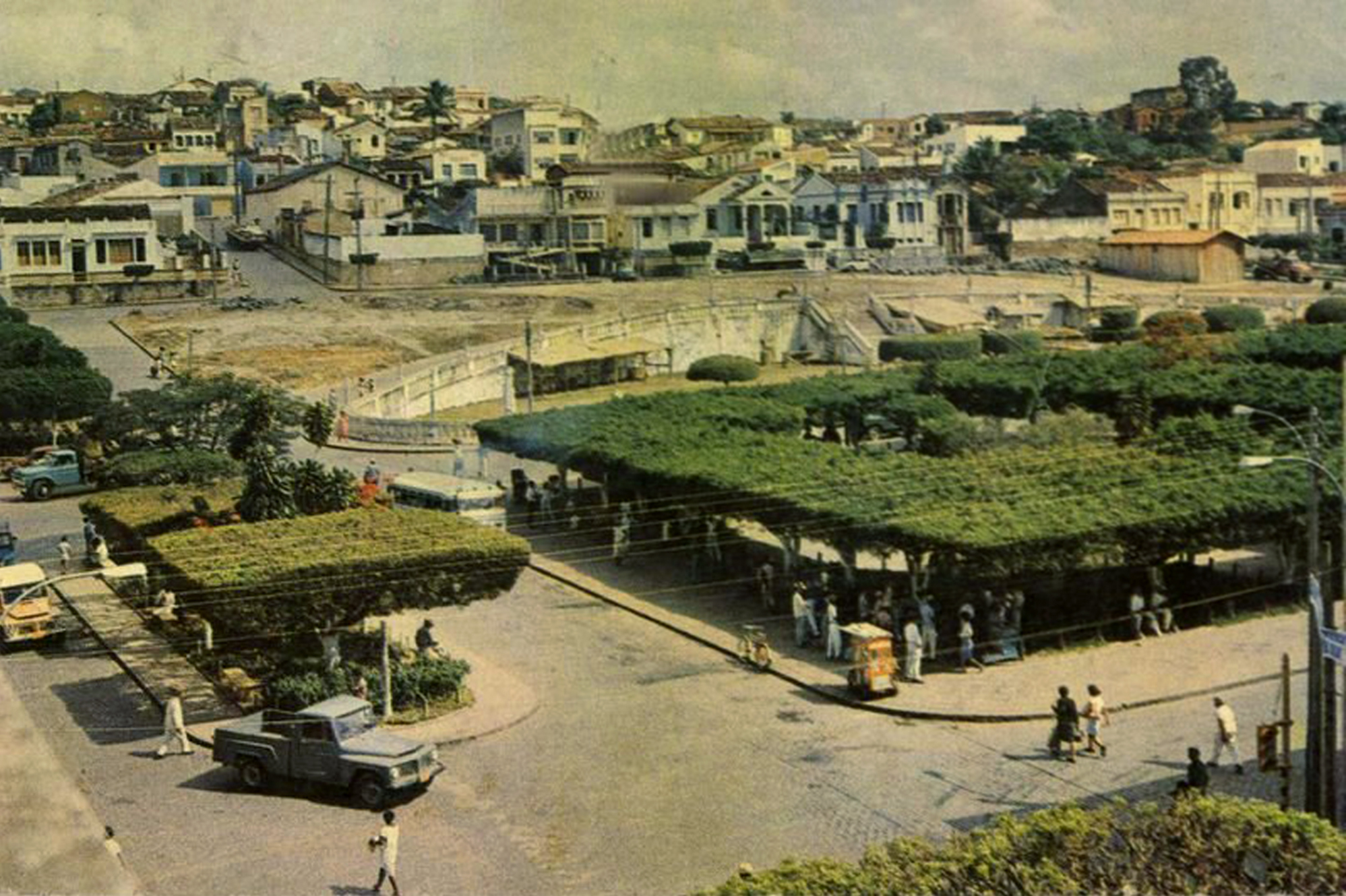 Photograph of the Square Ruy Barbosa in Jequié, Bahia, between years 1963 and 1964. It is possible to visualize in the image, urban workmanships of the managements of mayors as Geminiano Saback and Virgílio Tourinho.